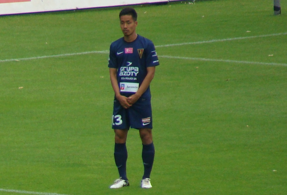 Takuya Murayama during match: Pogoń Szczecin - Werder Bremen